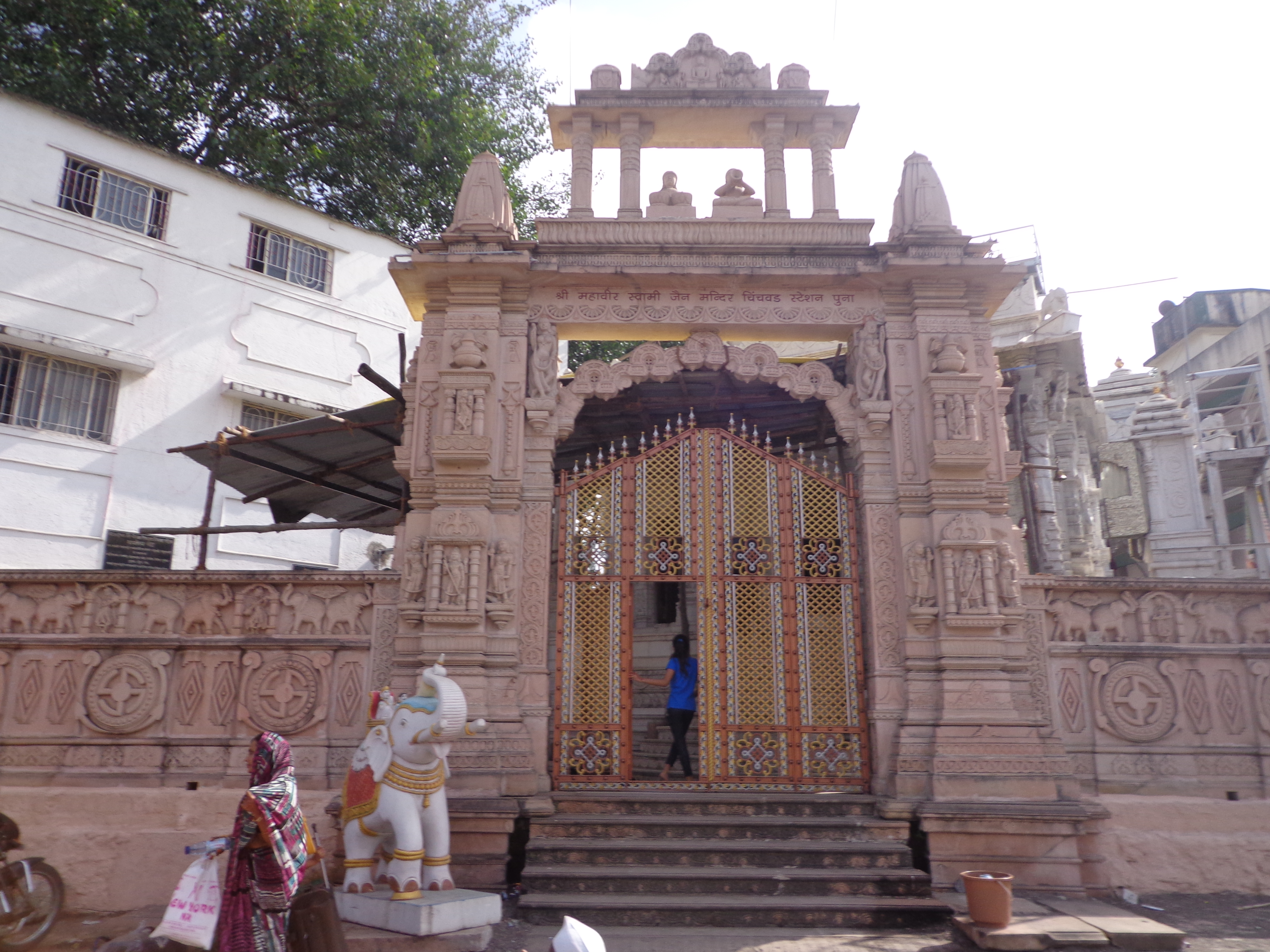 Jain temple pimpari in pune